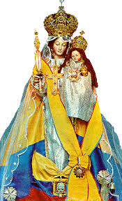 La Reina del Ecuador